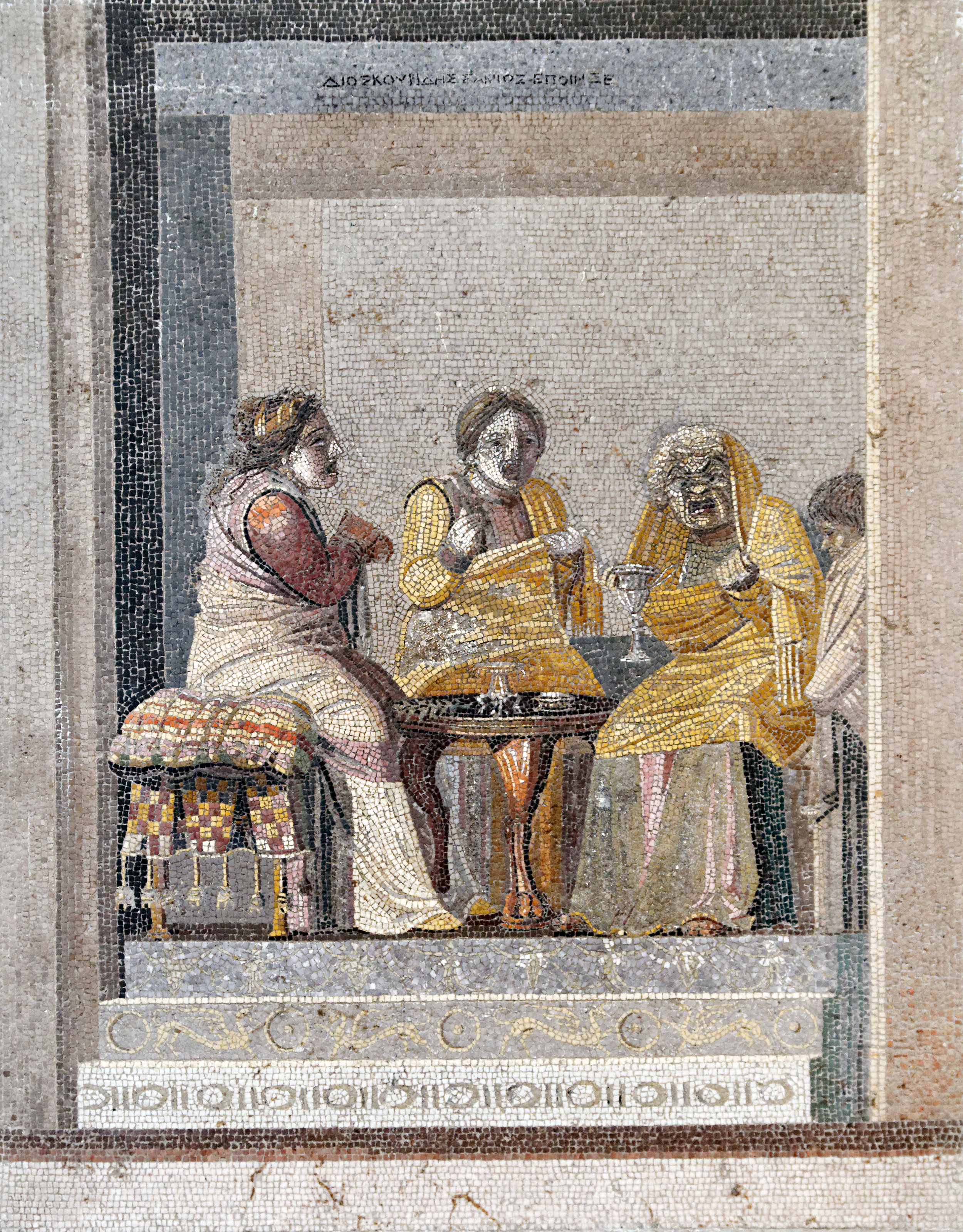 A consultation with the witch, comedic scene, Roman mosaic.